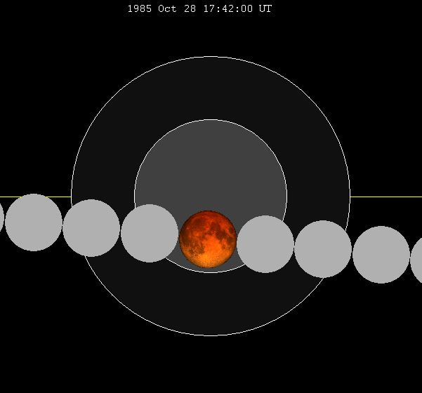 October 1985 lunar eclipse chart of moon's path through the earth's shadow. thumb